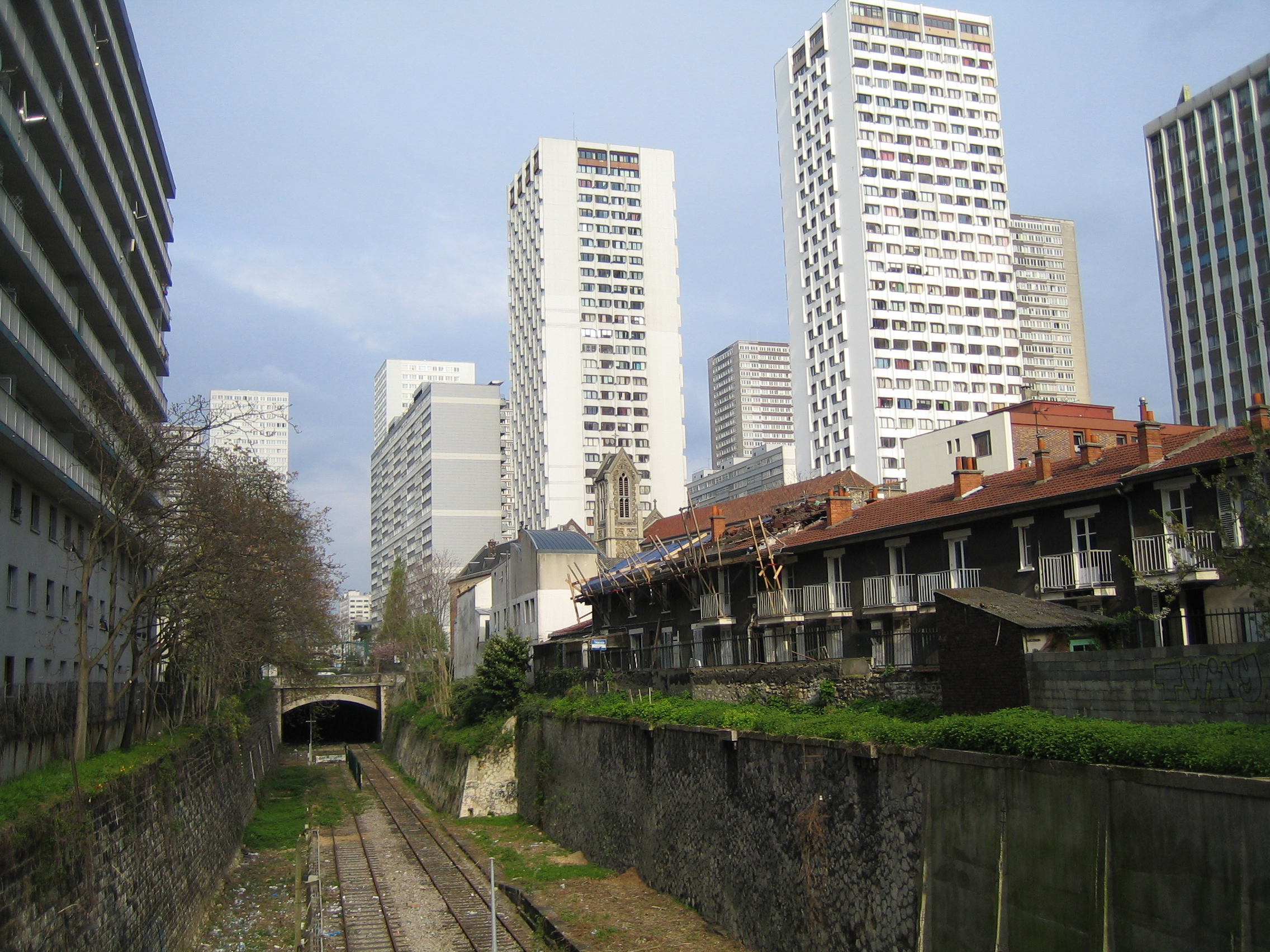 Former railway "Petite ceinture", Paris, 13ème arrondissement.